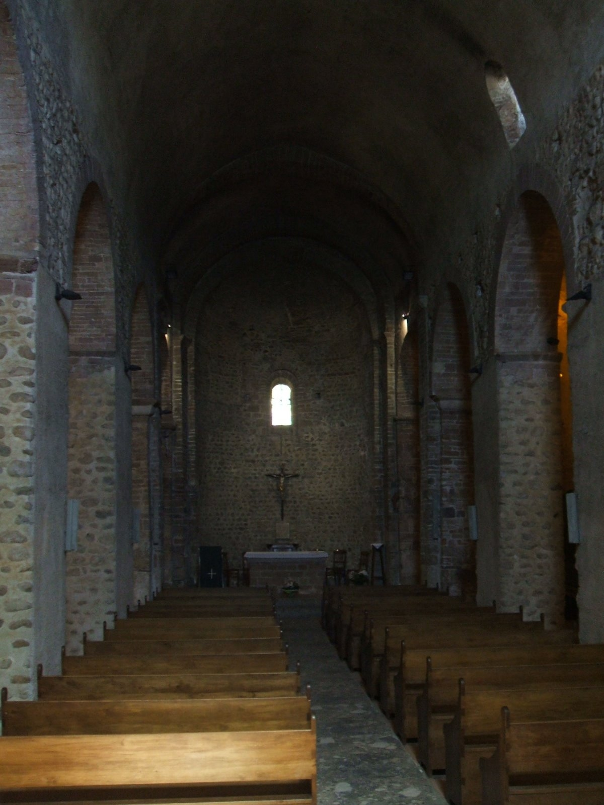 Saint-Estève (département of Pyrénées-Orientales, Languedoc-Roussillon région, France) : romanesque church of Saint-Estève (XIth-XIIth century), sole remain of the benedictine abbey of Saint-Estève ; interior.